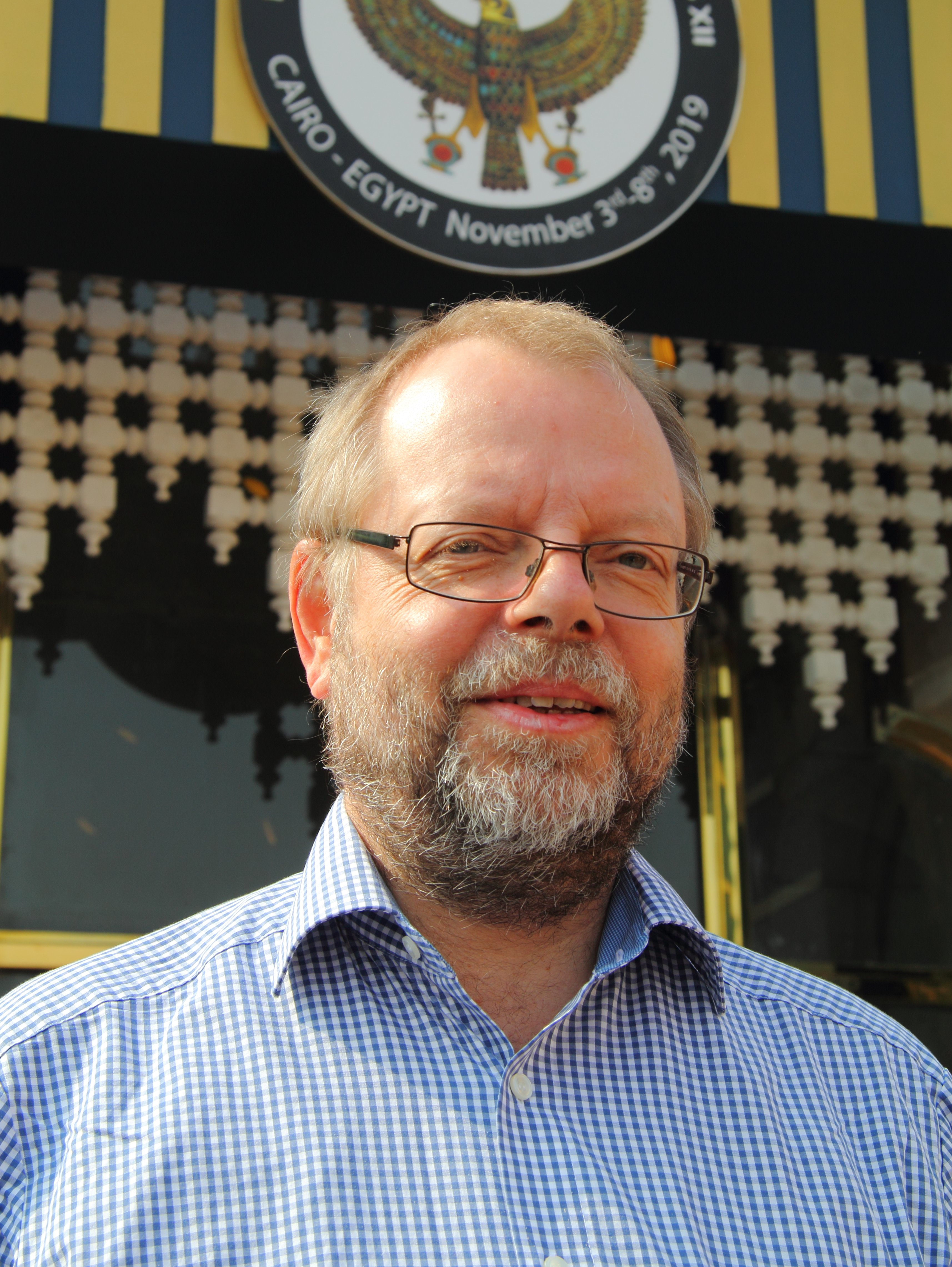 Christian Leitz, regular professor of Egyptology at the University of Tübingen, Germany, Cairo 2019